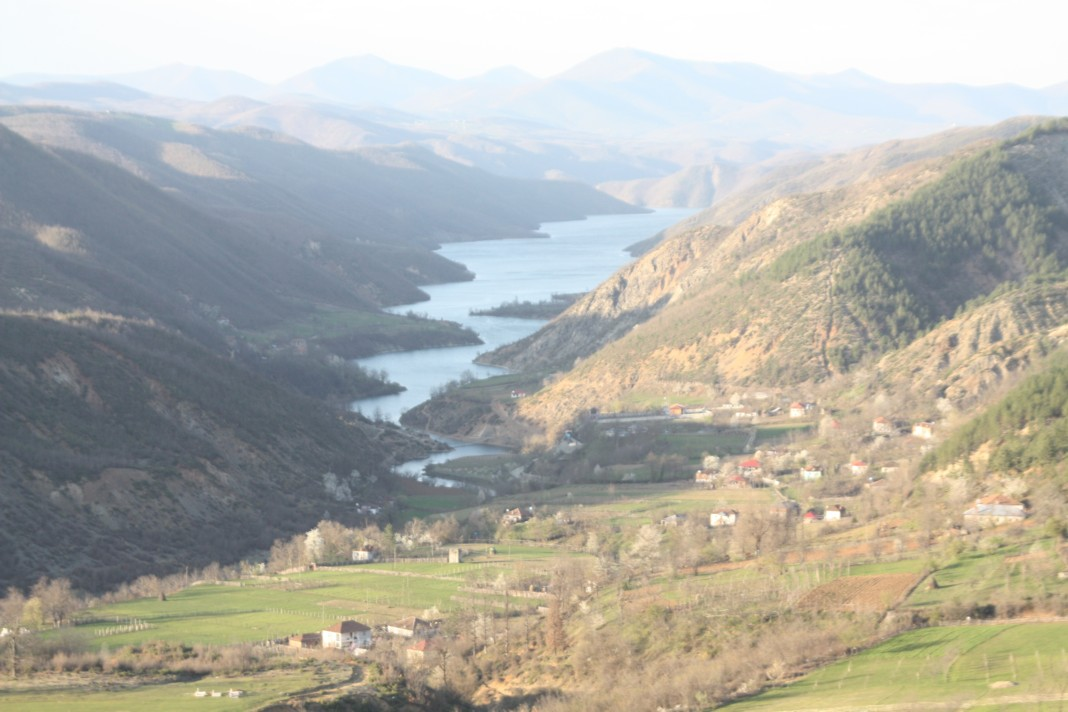 An arm of Lake Fierza and the village of Petkaj, Northern Albania, seen from the road from Kukës to west close to Megullë and Shënmri